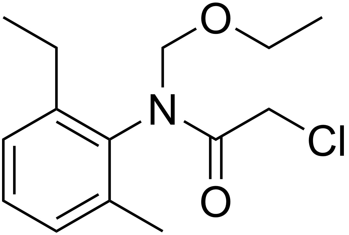 chemical structure of acetochlor